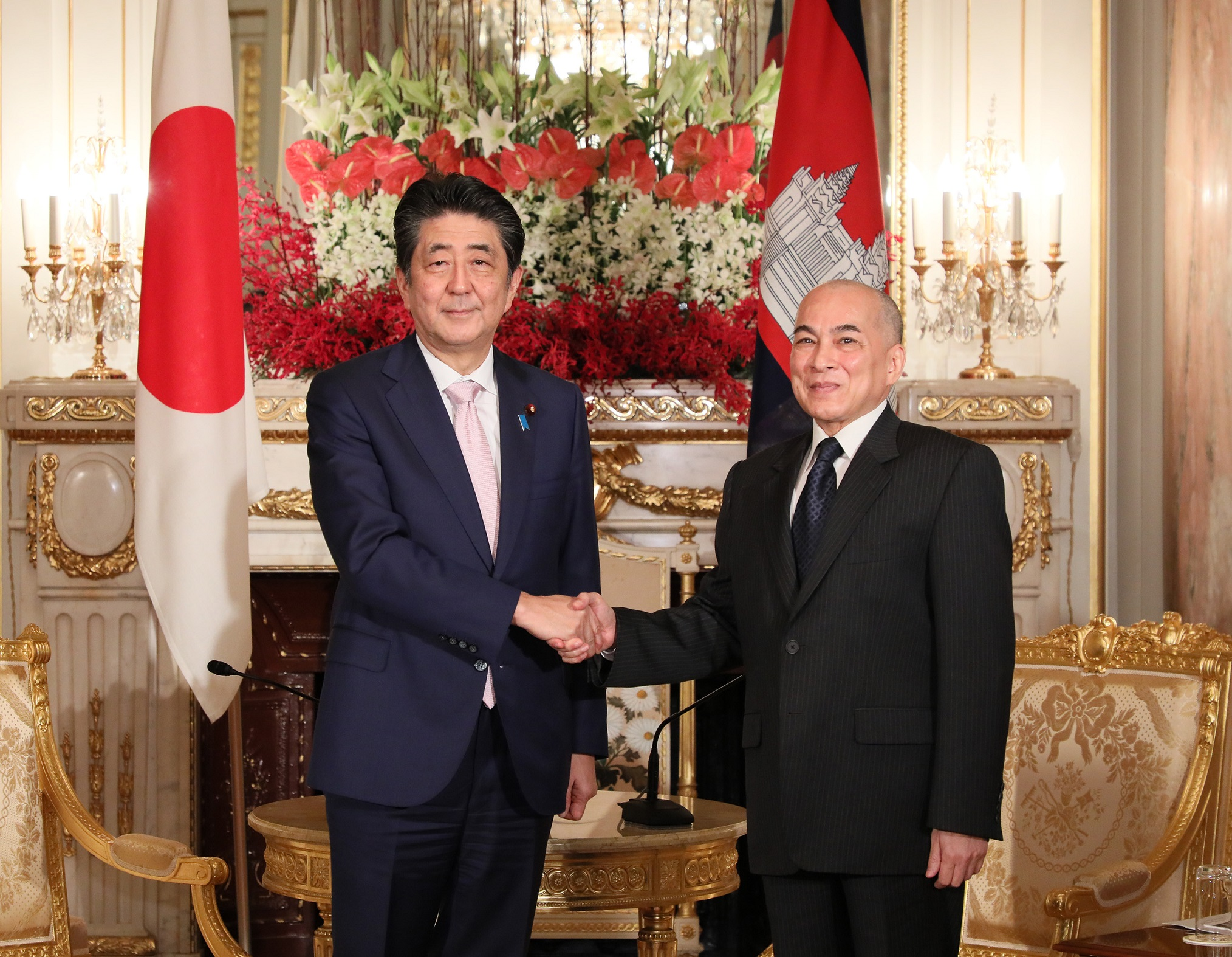 On October 22, 2019, Prime Minister Shinzo Abe held bilateral meetings and other events at the Akasaka Palace State Guest House. Prime Minister Abe held meetings with His Majesty King Philippe, King of the Belgians, His Majesty Al-Sultan Abdullah Ri’ayatuddin Al-Mustafa Billah Shah Ibni Sultan Haji Ahmad Shah Al-Musta’in Billah, The Yang di-Pertuan Agong XVI of Malaysia, H.M. Preah Bat Samdech Preah Boromneath Norodom Sihamoni, King of Cambodia, and His Majesty Jigme Khesar Namgyel Wangchuck, King of the Kingdom of Bhutan, respectively.